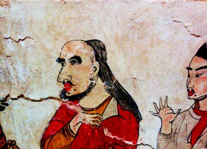 Mural from a tomb of Northern Qi Dynasty in Jiuyuangang, Xinzhou